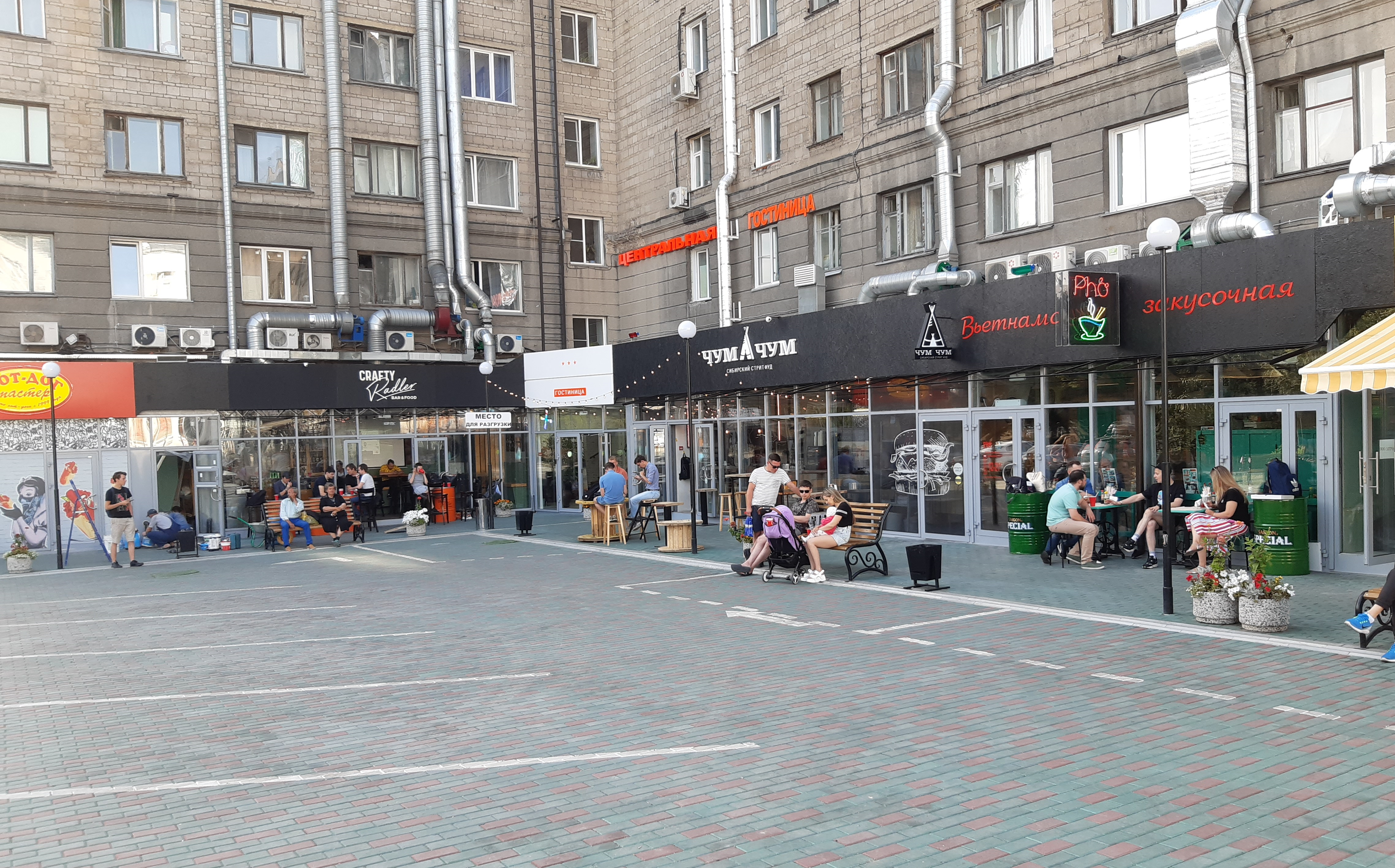 The back yard of the Central hotel in Novosibirsk. In 2019, restaurants were opened at this place.